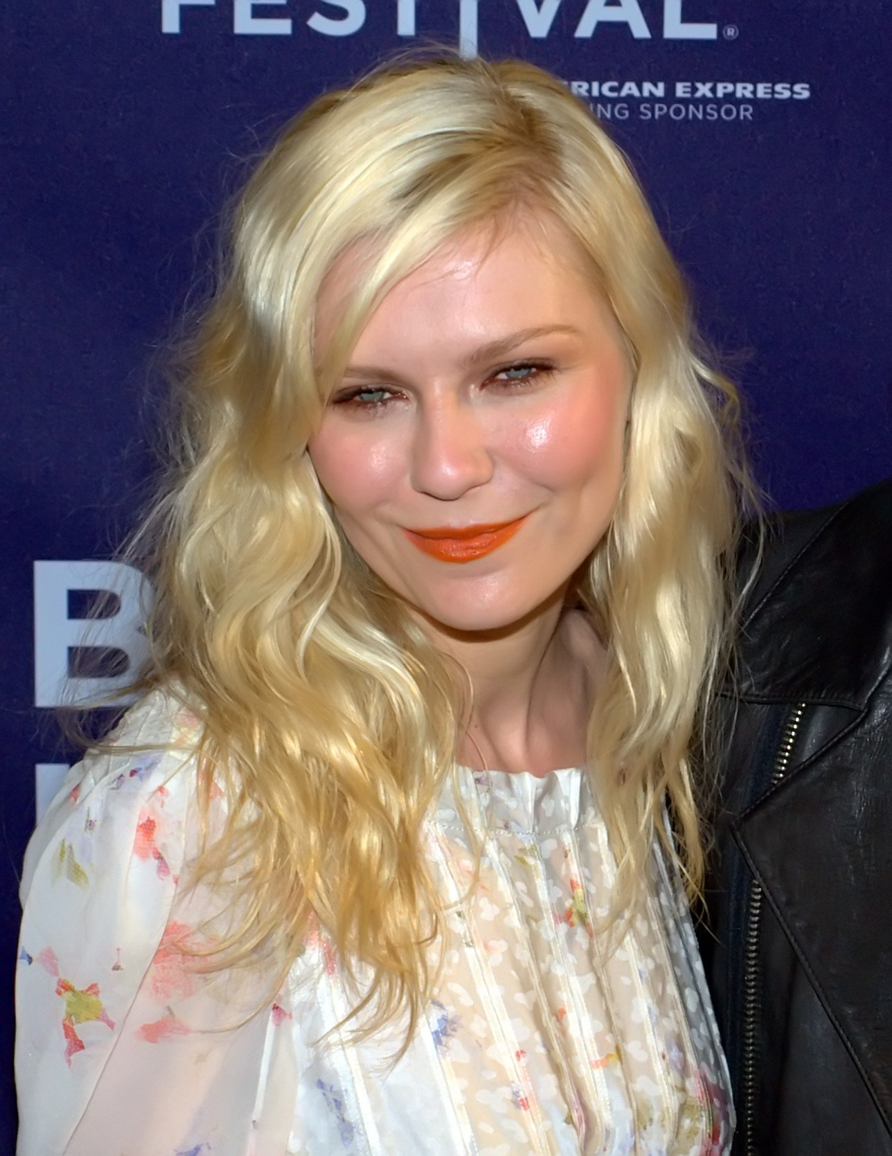 Photo of Kirsten Dunst by David Shankbone in NYC, April 24, 2010. Tribeca Film Festival.